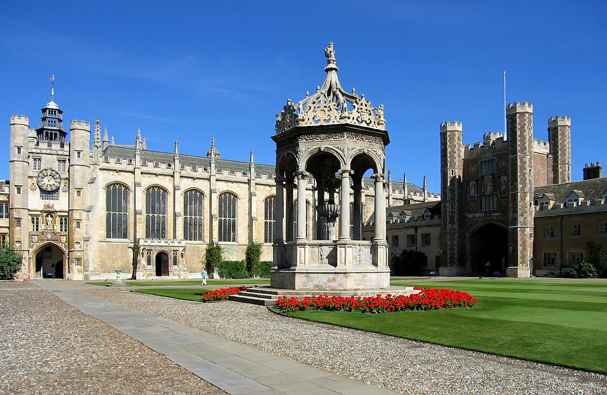 The Great Court at Trinity College, Cambridge. Showing from left to right, the King's Gate, Chapel, Fountain and Great Gate. The court features in the story Chariots of Fire.